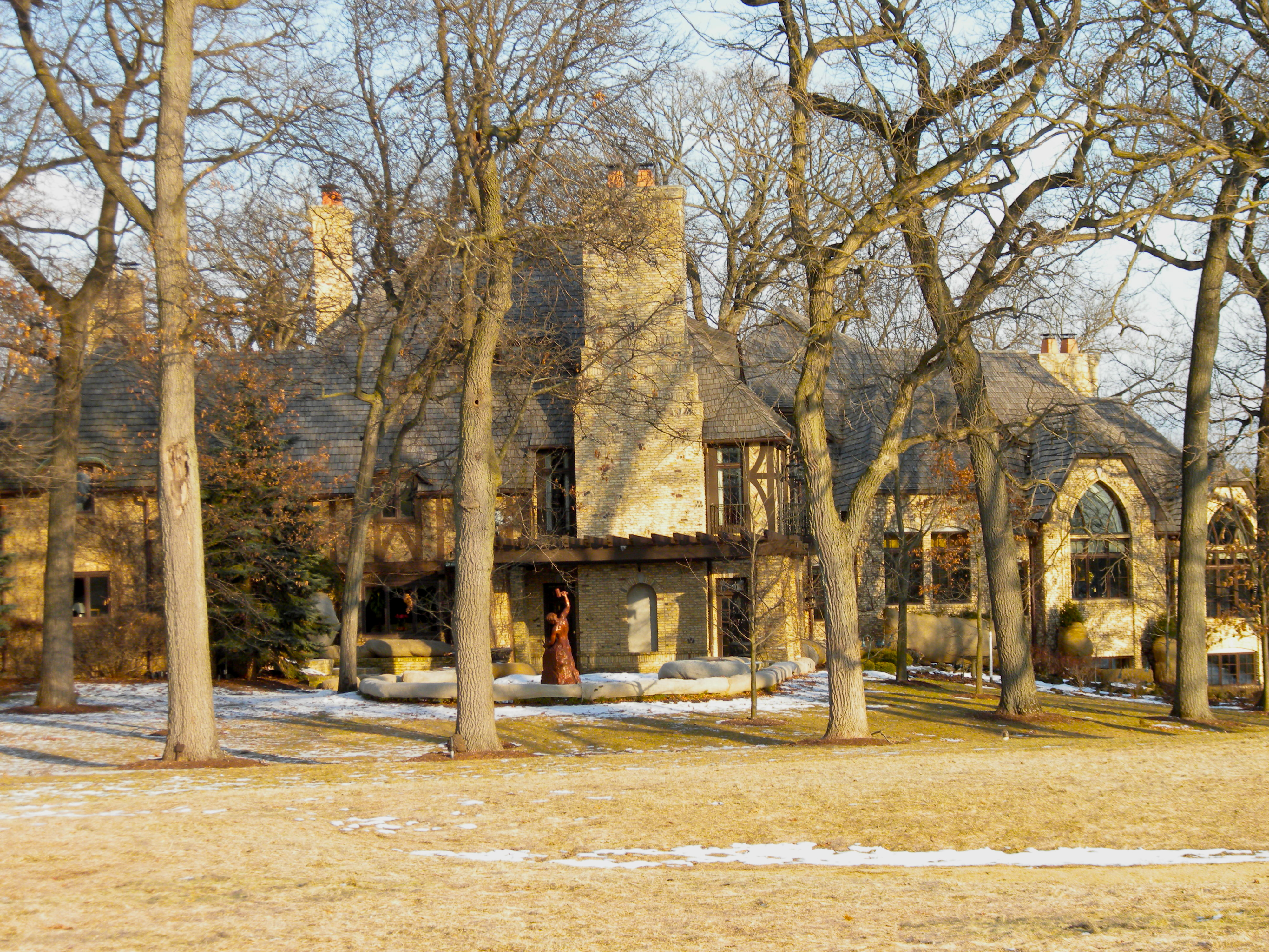 The Grigsby Estate in Barrington Hills, Illinois off US 14. 125 Buckley Road. Note this is as close as I could get due to posted no trespassing signs. On the NRHP